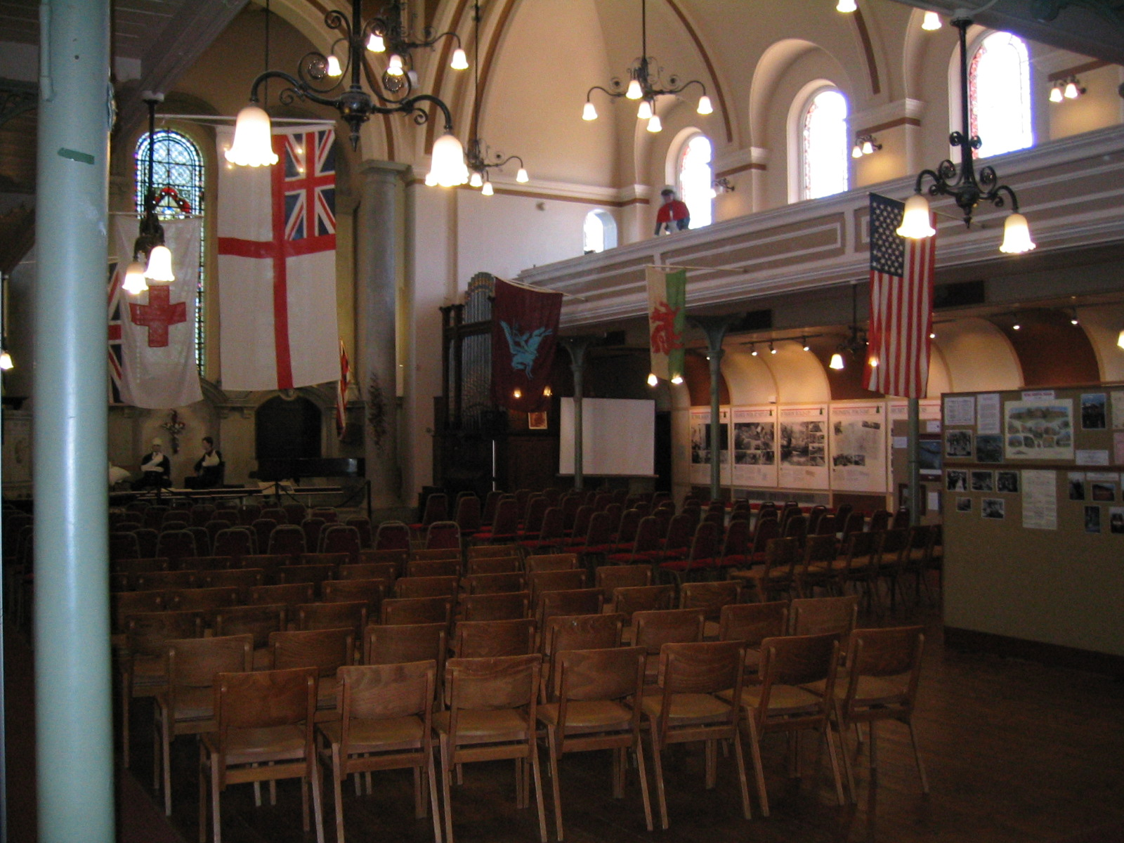 The interior of the chapel of the former Netley Hospital, now preserved as a visitor centre. Netley, Hampshire, England. Photo taken by me 2003-06-20.